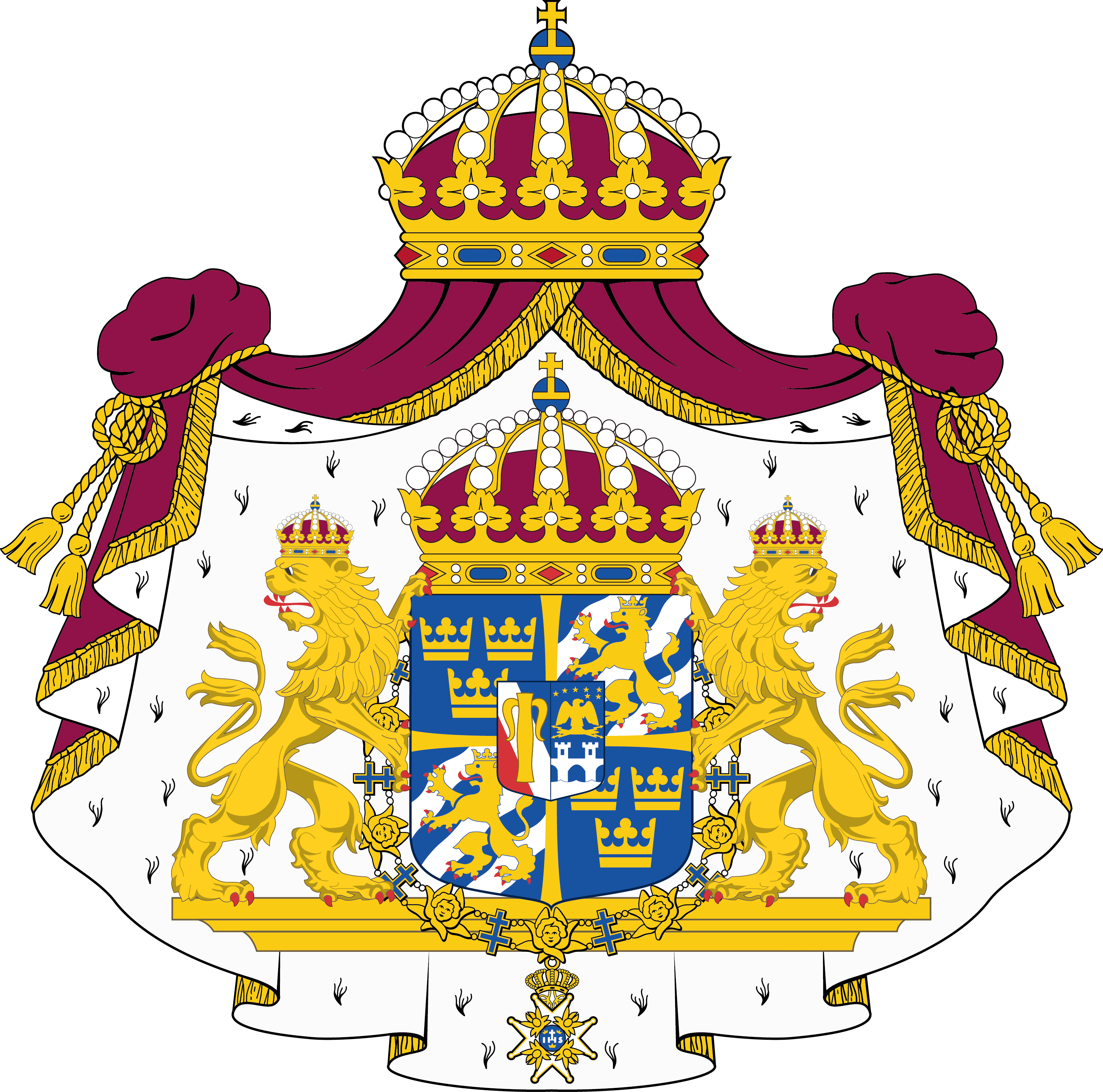 The full coat of arms of Sweden. Drawn by Henrik Dahlström, the heraldic artist at the National Archives of Sweden (Riksarkivet). This representation of a coat of arms is potentially different from the one used by the armiger (municipality or organisation) in question. = ⇑“Sable, a lionrampant or” This coat of arms was drawn based on its blazon which – being a written description – is free from copyright. Any illustration conforming with the blazon of the arms is considered to be heraldically correct. Thus several different artistic interpretations of the same coat of arms can exist. The design officially used by the armiger is likely protected by copyright, in which case it cannot be used here.Individual representations of a coat of arms, drawn from a blazon, may have a copyright belonging to the artist, but are not necessarily derivative works.Further information: Commons:Coats of arms and Template:Coa blazon